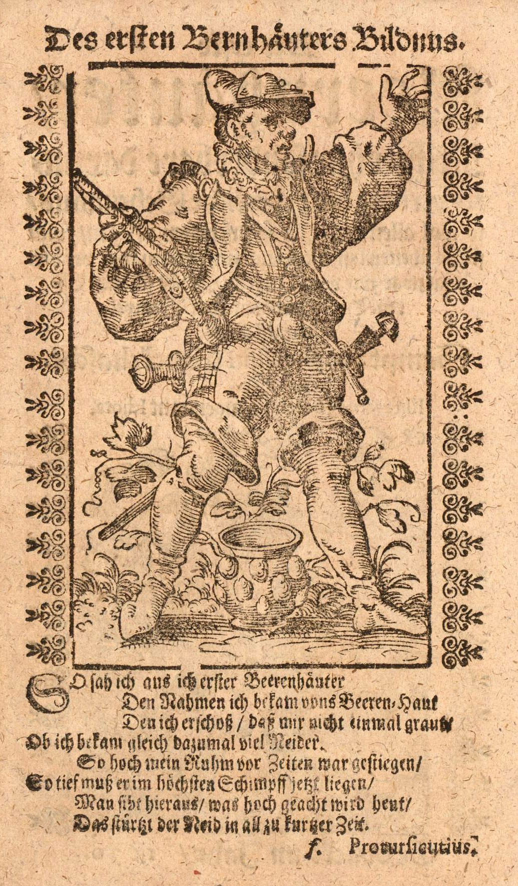 Illustration of first "baer-skinner" (1670), novel by Grimmelshausen